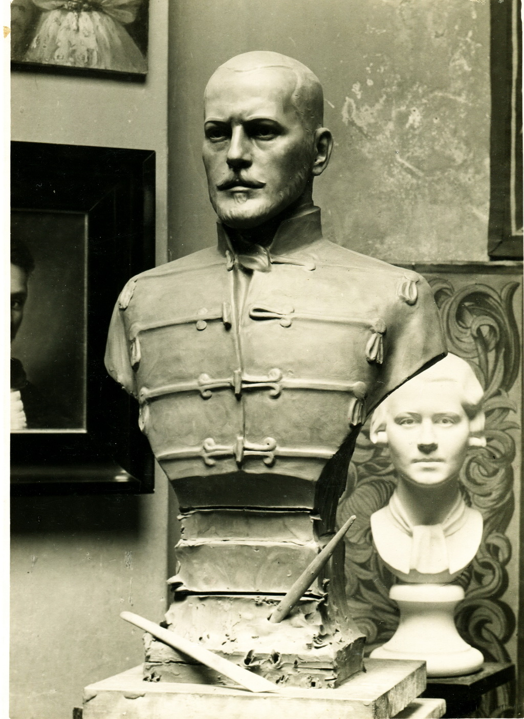 Artúr Görgei. Sculptor: László Vastagh.